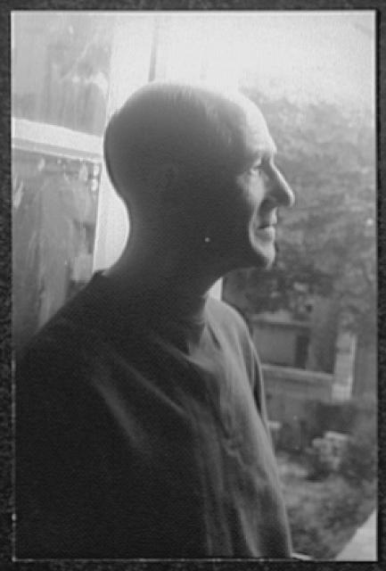 Title: Portrait of Marcel Jouhandeau, Paris Abstract/medium: 1 photographic print : gelatin silver.